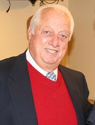 Photo I took of Tommy Lasorda Please acknowledge "Phil Konstantin" as the creator of this photograph.